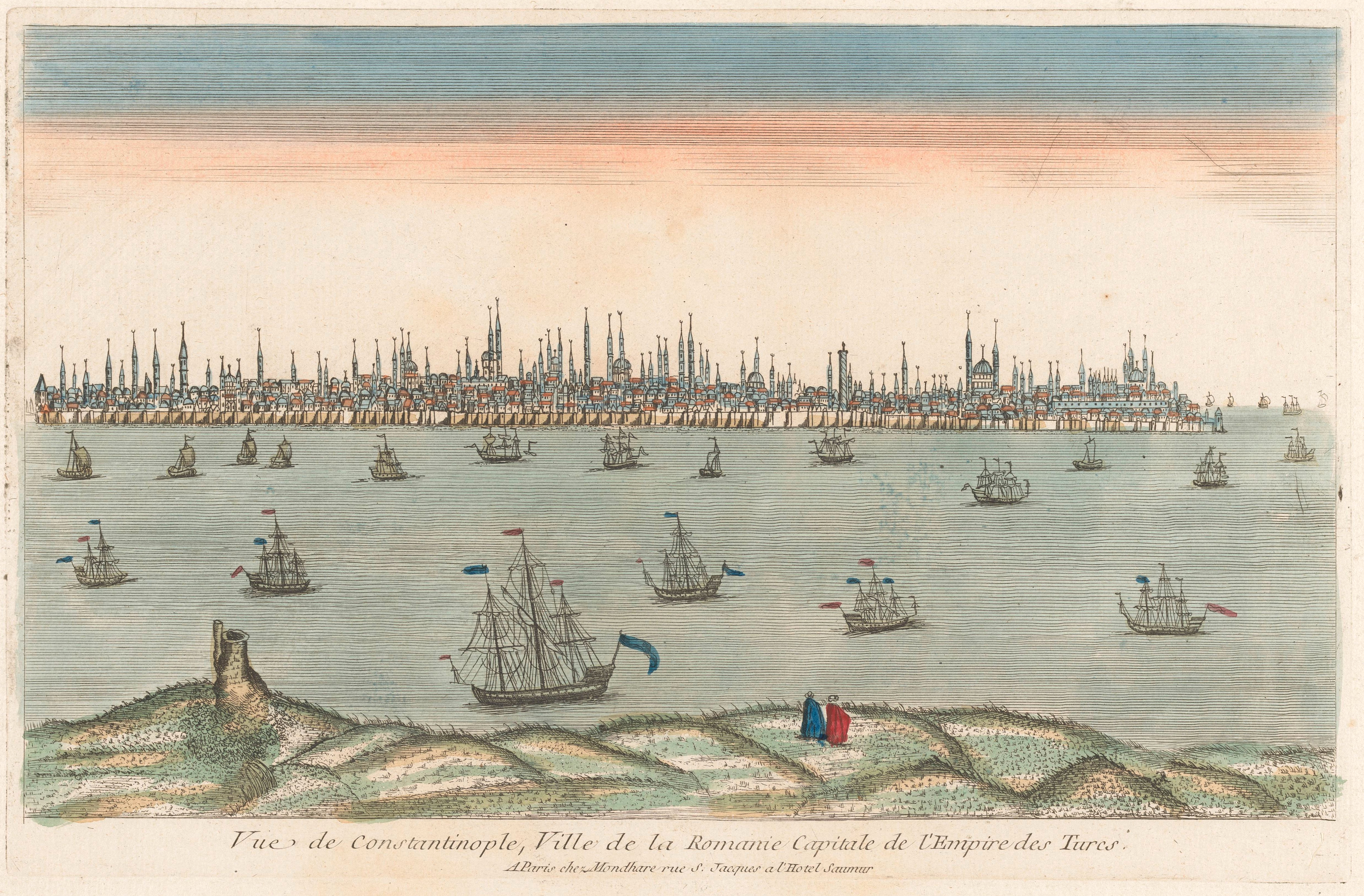 View of Constantinople, 18th-century French drawing. Between 1759-1796. French text in the bottom.